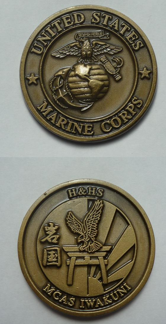 Challengecoin_MCAS_IWAKUNI